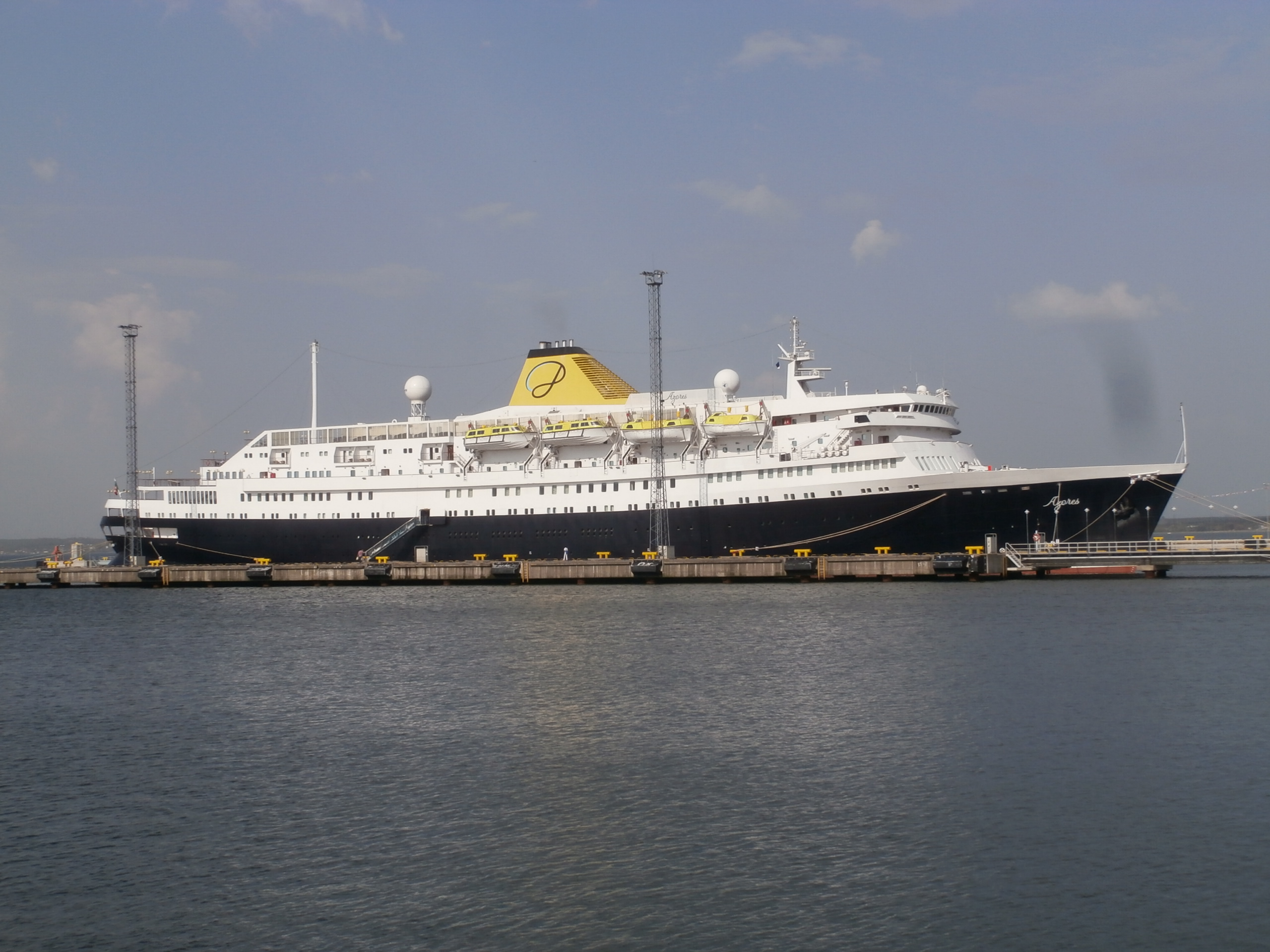 Azores at Pier 25 in Tallinn 19 May 2014